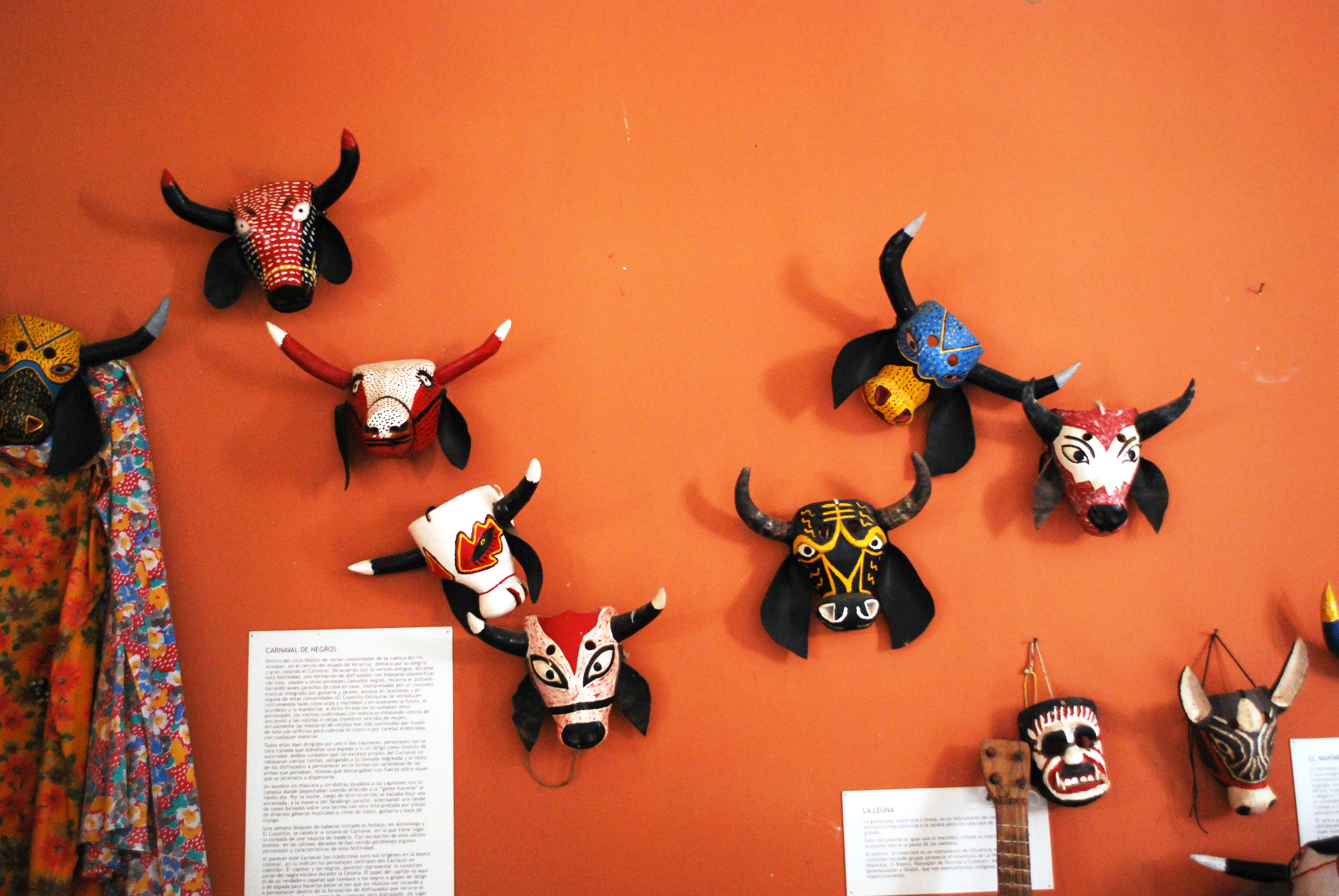 Exhibits inside the Museo de las Culturas Afromestizas in Cuajinicuilapa, Guerrero